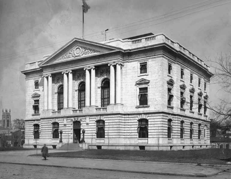 Macon, Georgia Federal Building and U.S. Courthouse (1934) Completed in 1908. Supervising Architect: James Knox Taylor Still in use by the U.S. District Court for the Middle District of Georgia; the U.S. District Court for the Southern District of Georgia met here until the creation of the Middle District in 1926; the U.S. Circuit Court for the Southern District of Georgia met here until that court was abolished in 1912. Renamed the William Augustus Bootle Federal Building and United States Courthouse in 1998.